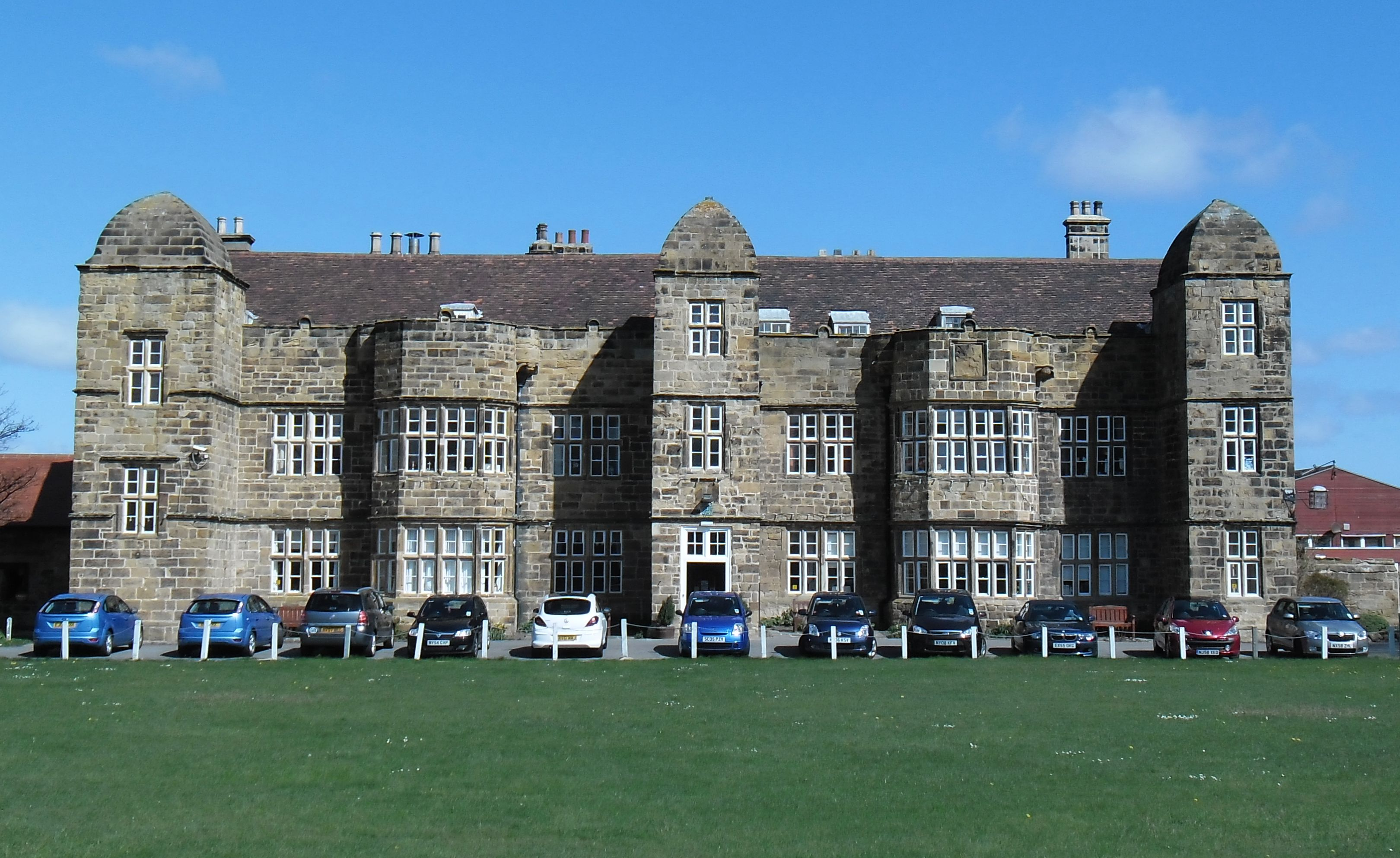 Marske Hall, Marske-by-the-Sea, Redcar and Cleveland, United Kingdom